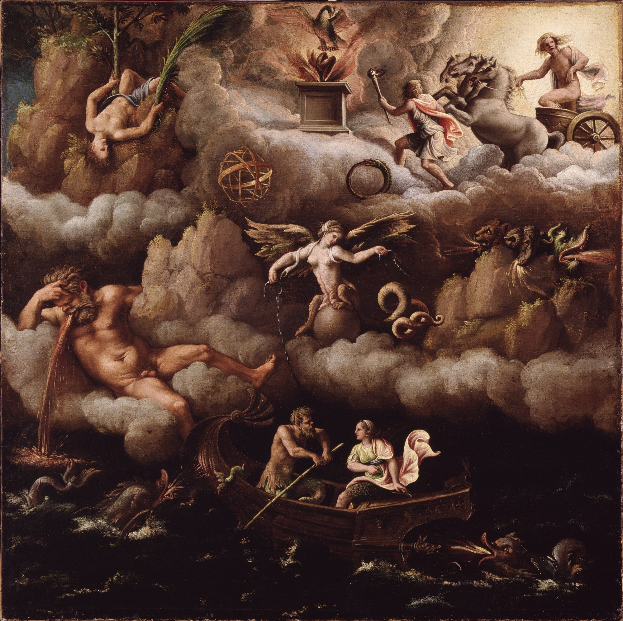 The Allegory of Immortality is a painting by artist Giulio Romano and was created c. 1540. It currently resides in the collection of the Detroit Institute of Arts in Detroit, MI, USA.